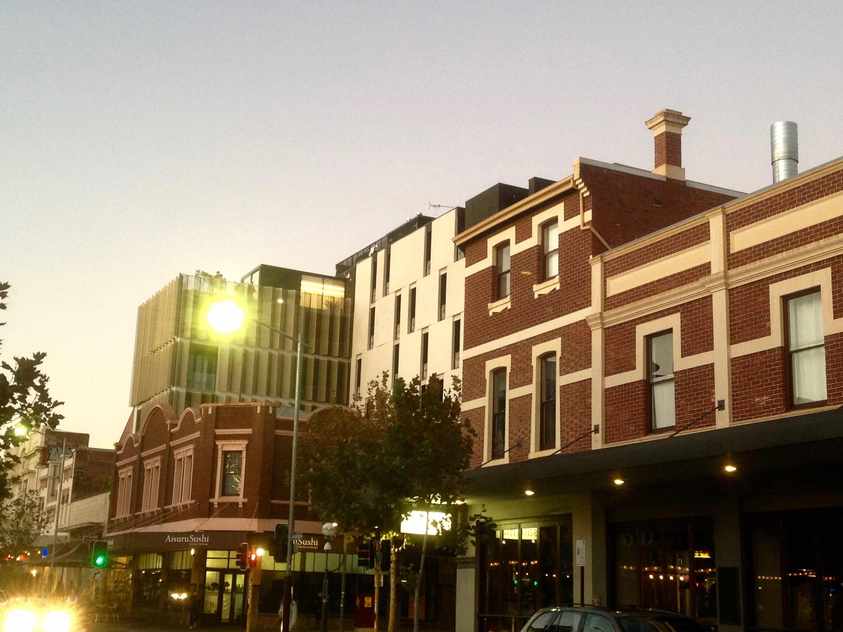 View of the corner of William Street and James Street, Northbridge